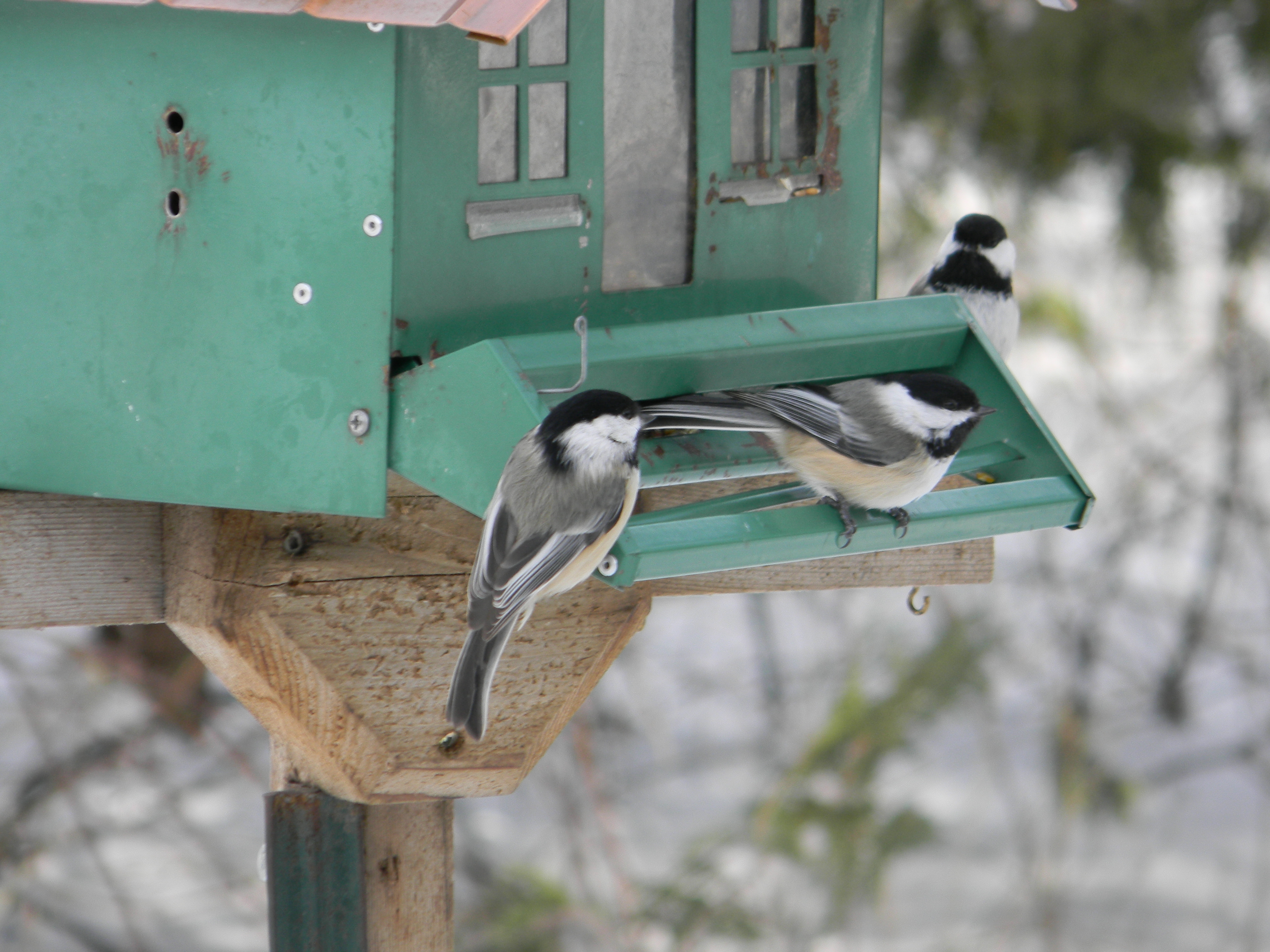 Black-capped Chickadee Poecile atricapillus, picture taken in Ontario, Canada